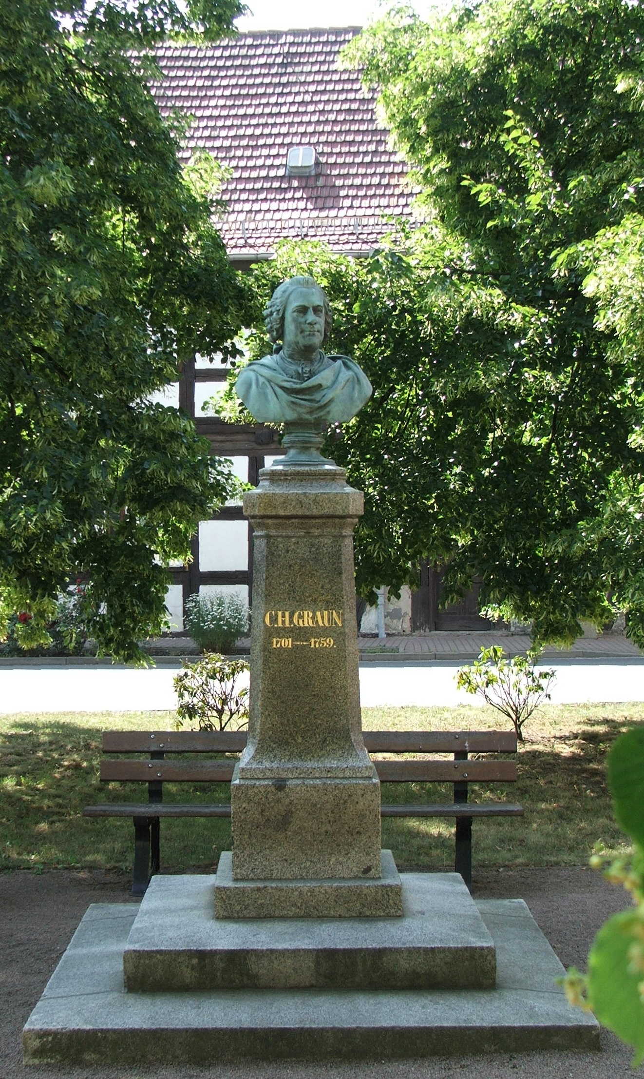 Monument of Carl Heinrich Graun in Wahrenbrück, Germany.